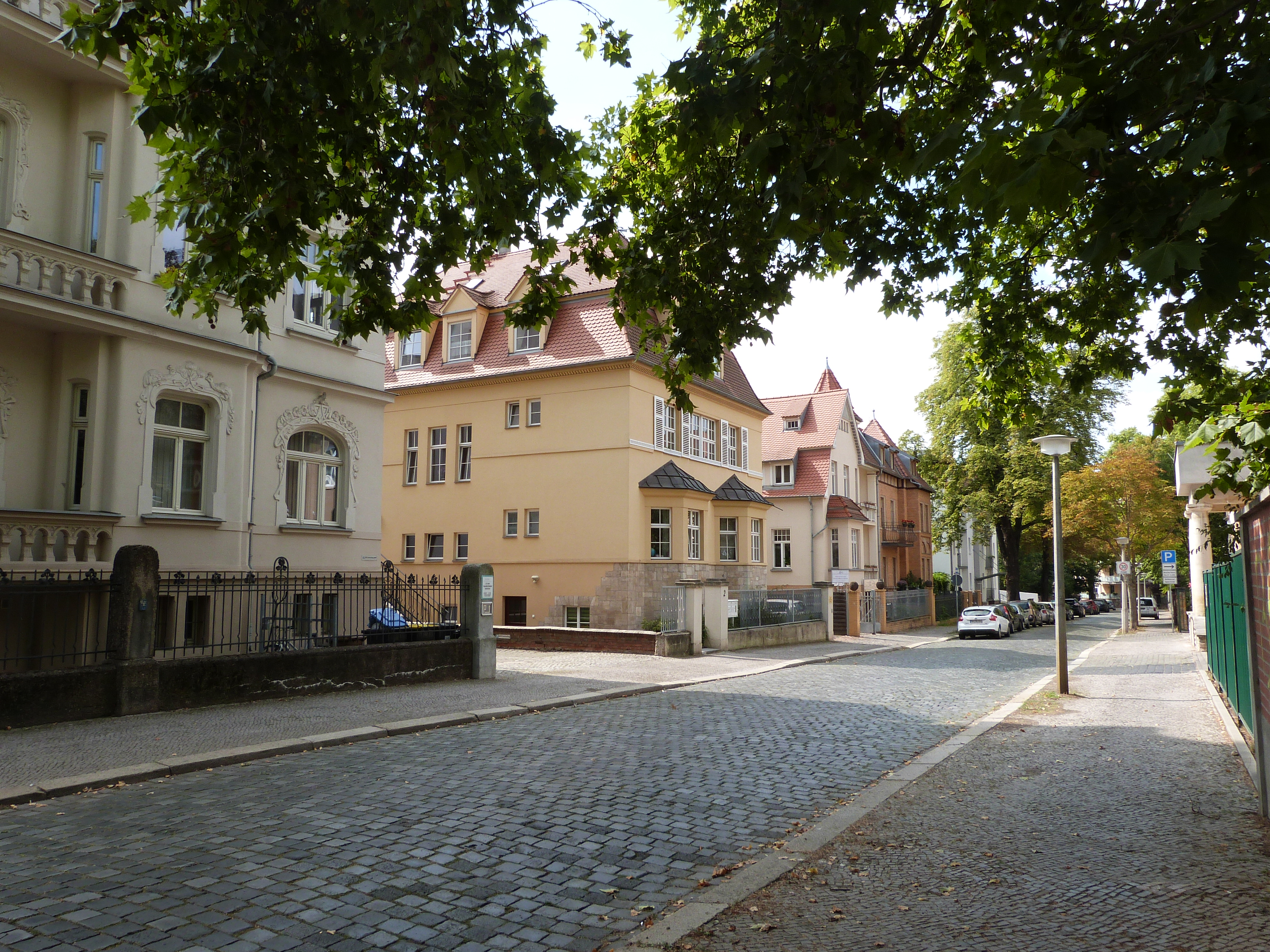 Street Kurallee in Halle (Saale), Saxony-Anhalt